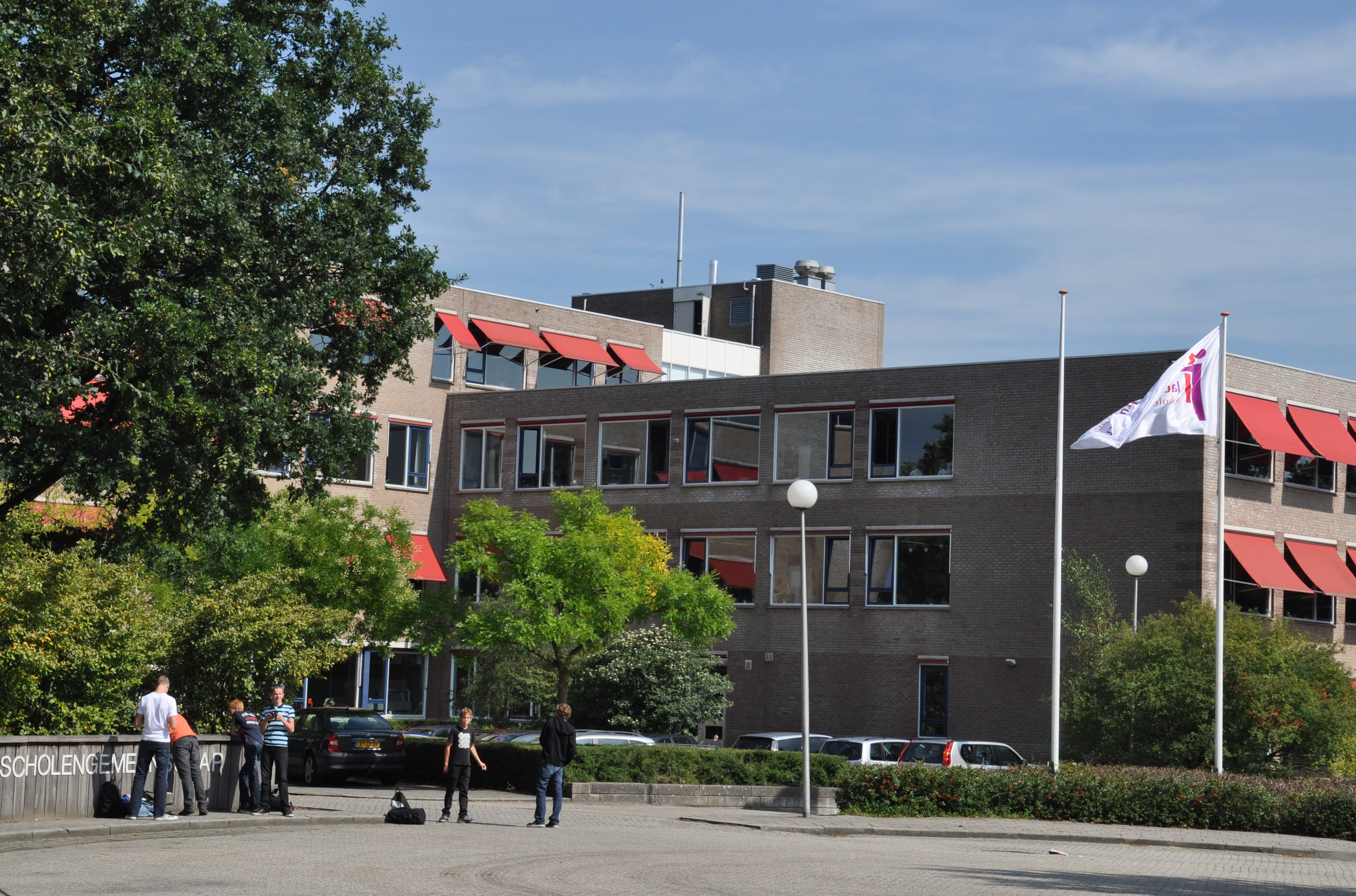 Apeldoorn location of the Jacobus Fruytier scholengemeenschap